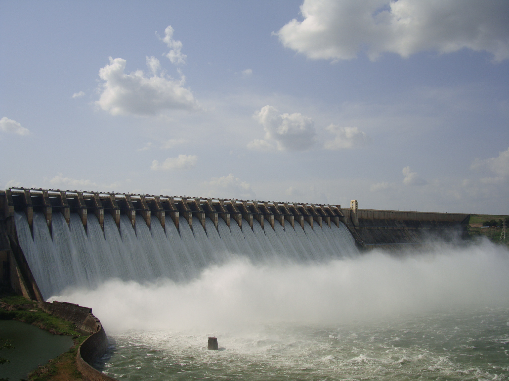 This photograph was taken on 10.9.2011, when 26 gates of the Dams were opened.